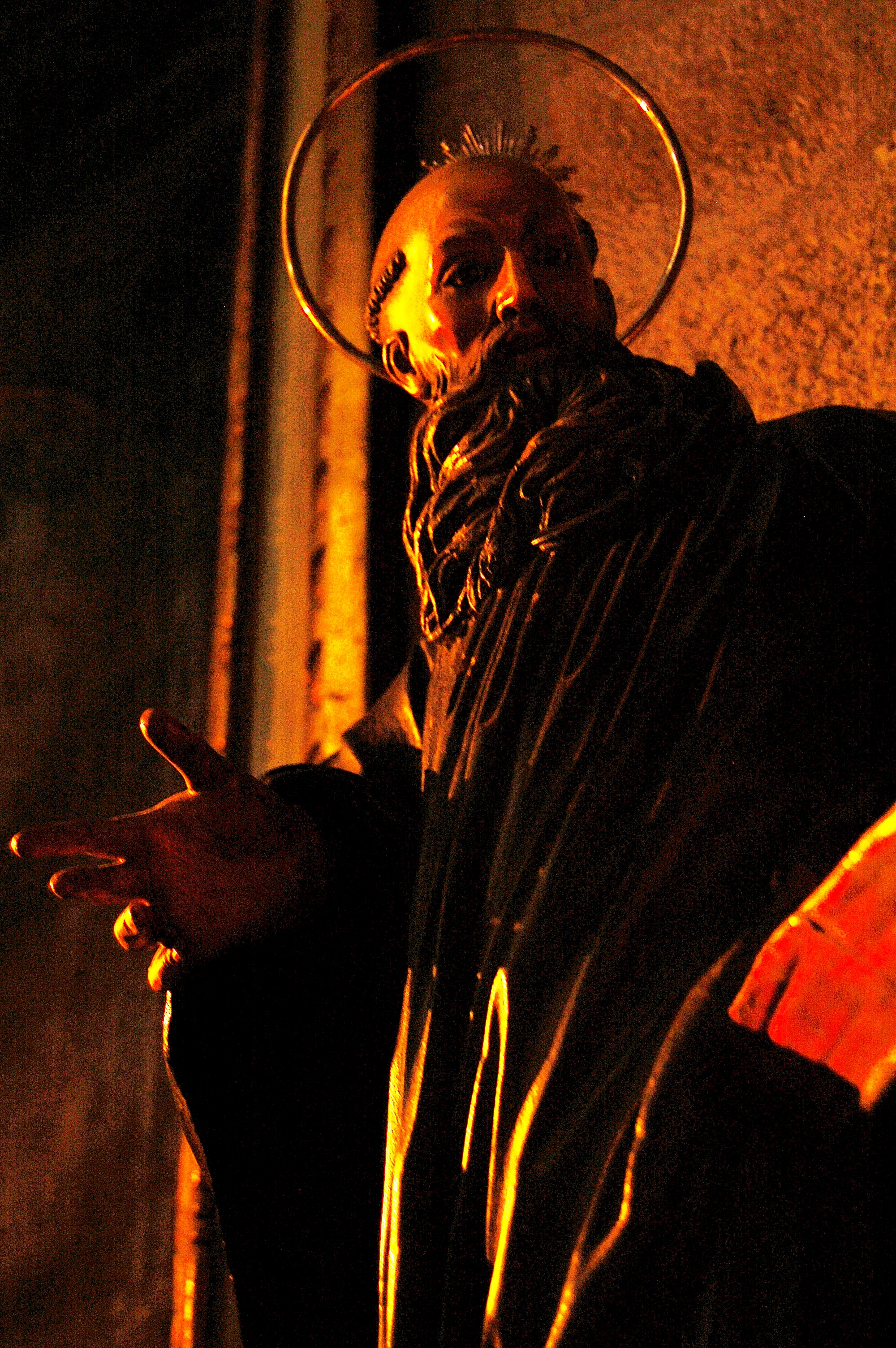 San Bieito de Manuel de Prado Mariño na igrexa de San Bieito do Campo en Santiago de Compostela